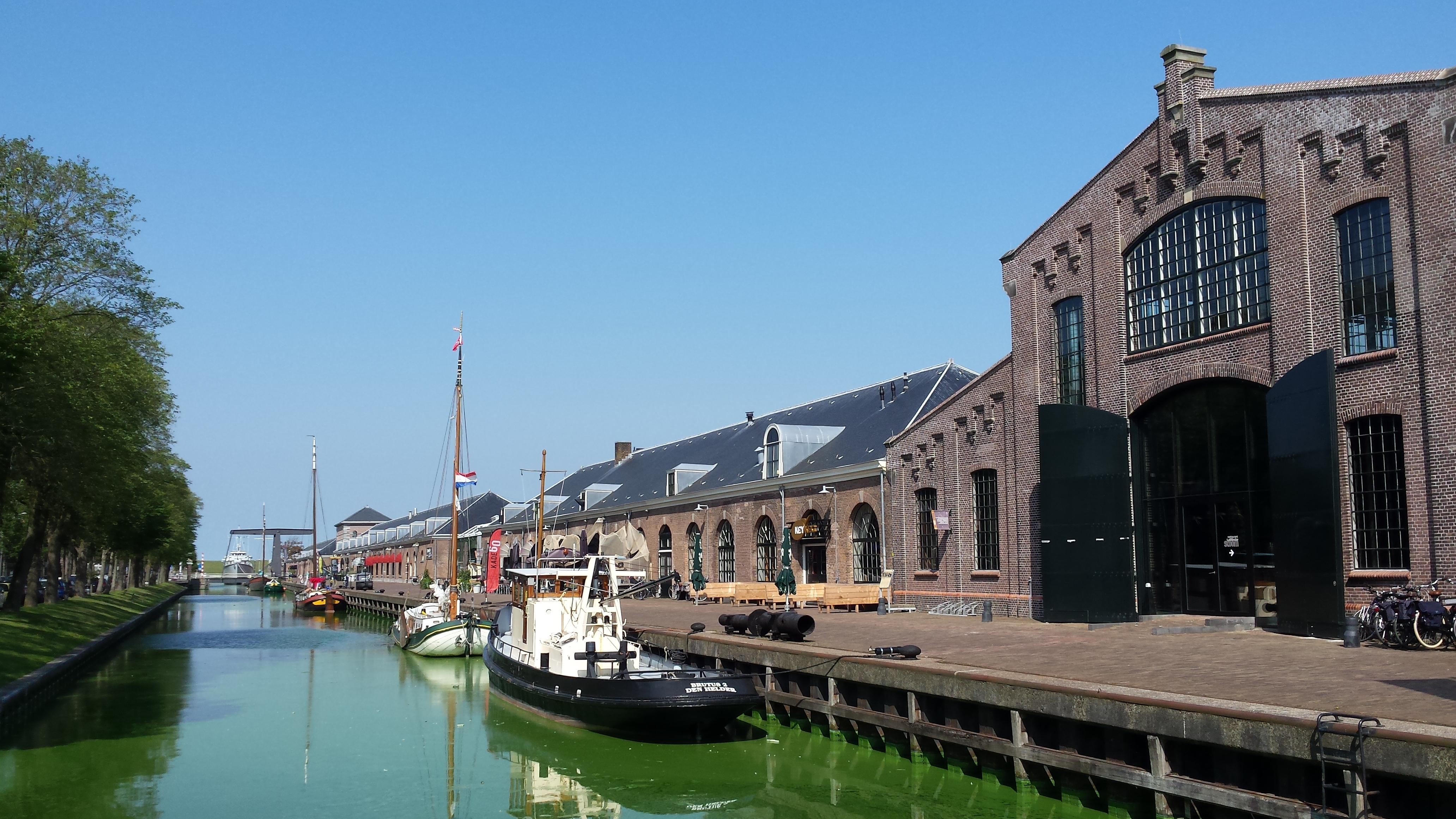 Den Helder - Old navy dockyard Willemsoord